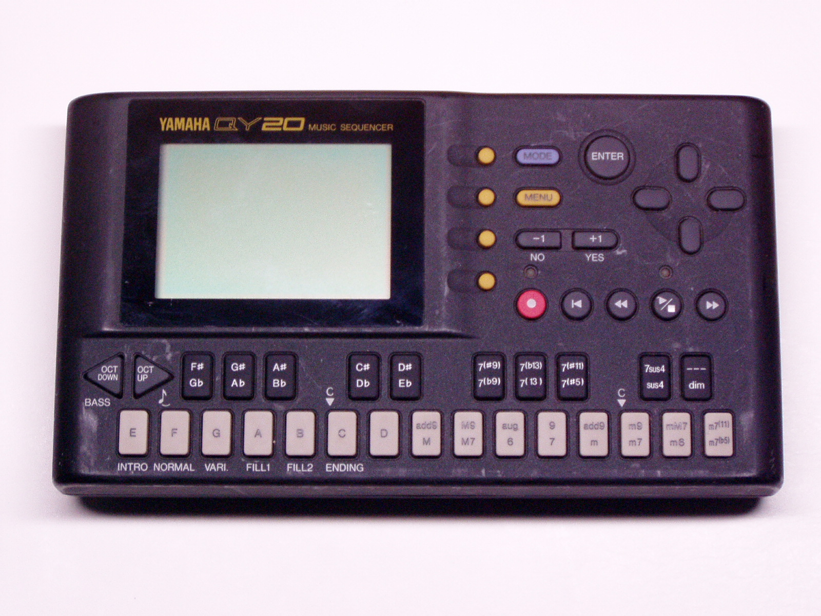 Music sequencer Yamaha QY20.